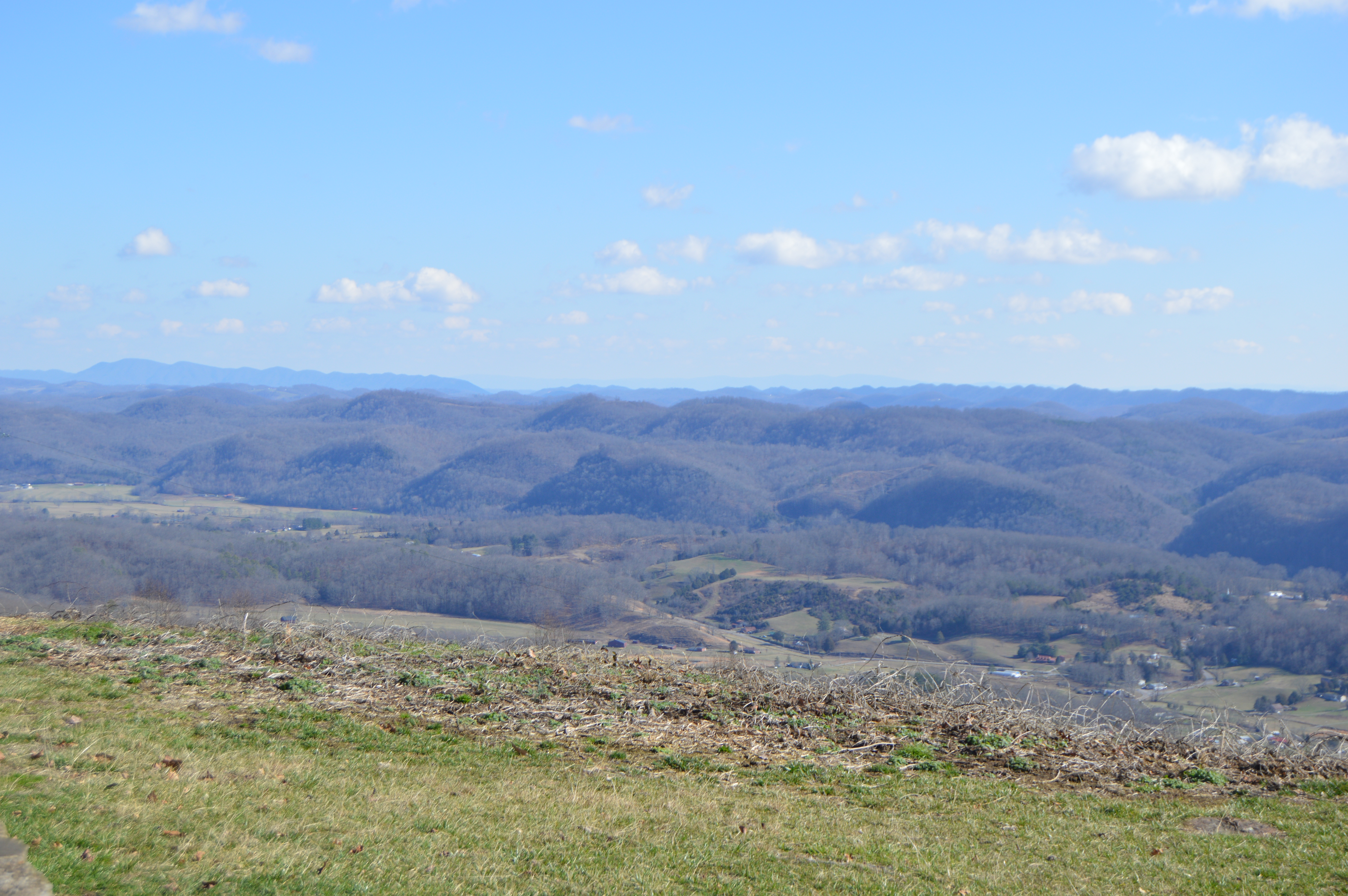 Mountains in western Scott County, Virginia, United States, looking southeast from the U.S. Route 58 overlook at the summit of Powell Mountain.